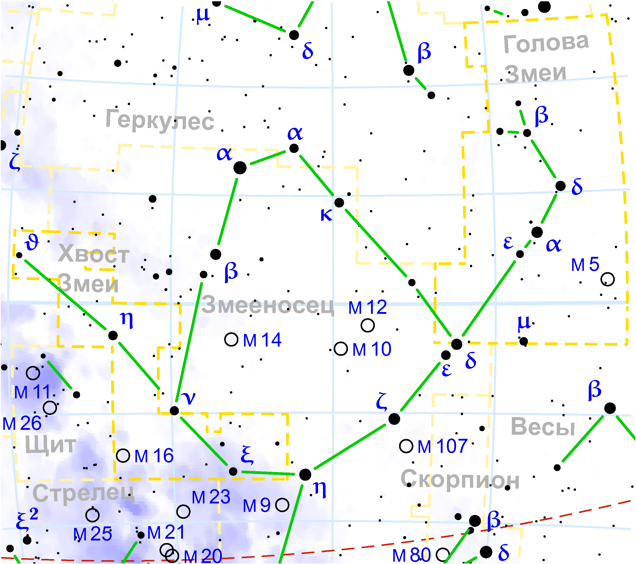 Serpens constellation map in Russian